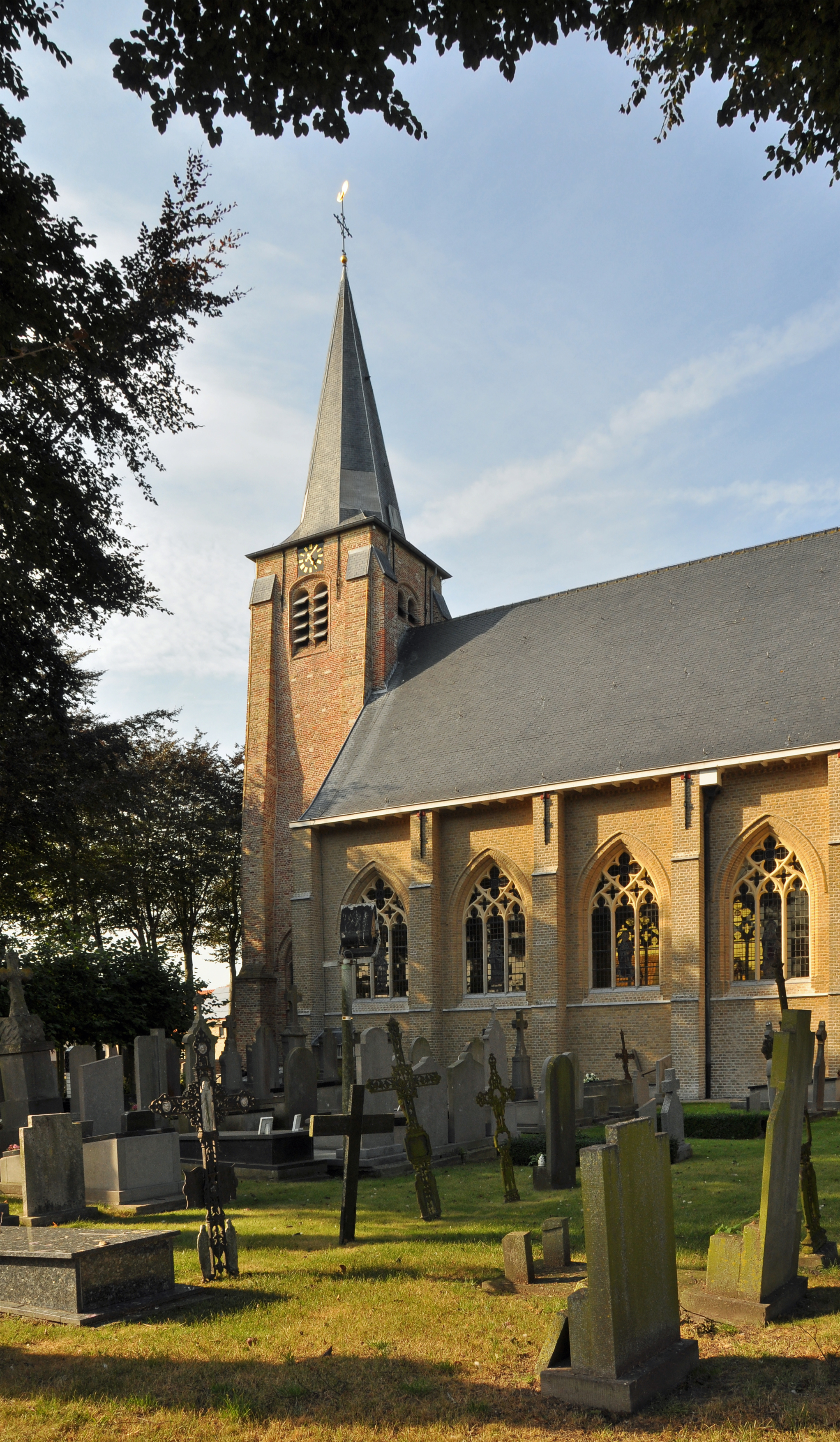 Ramskapelle (Knokke-Heist, Belgium): St Vincent church